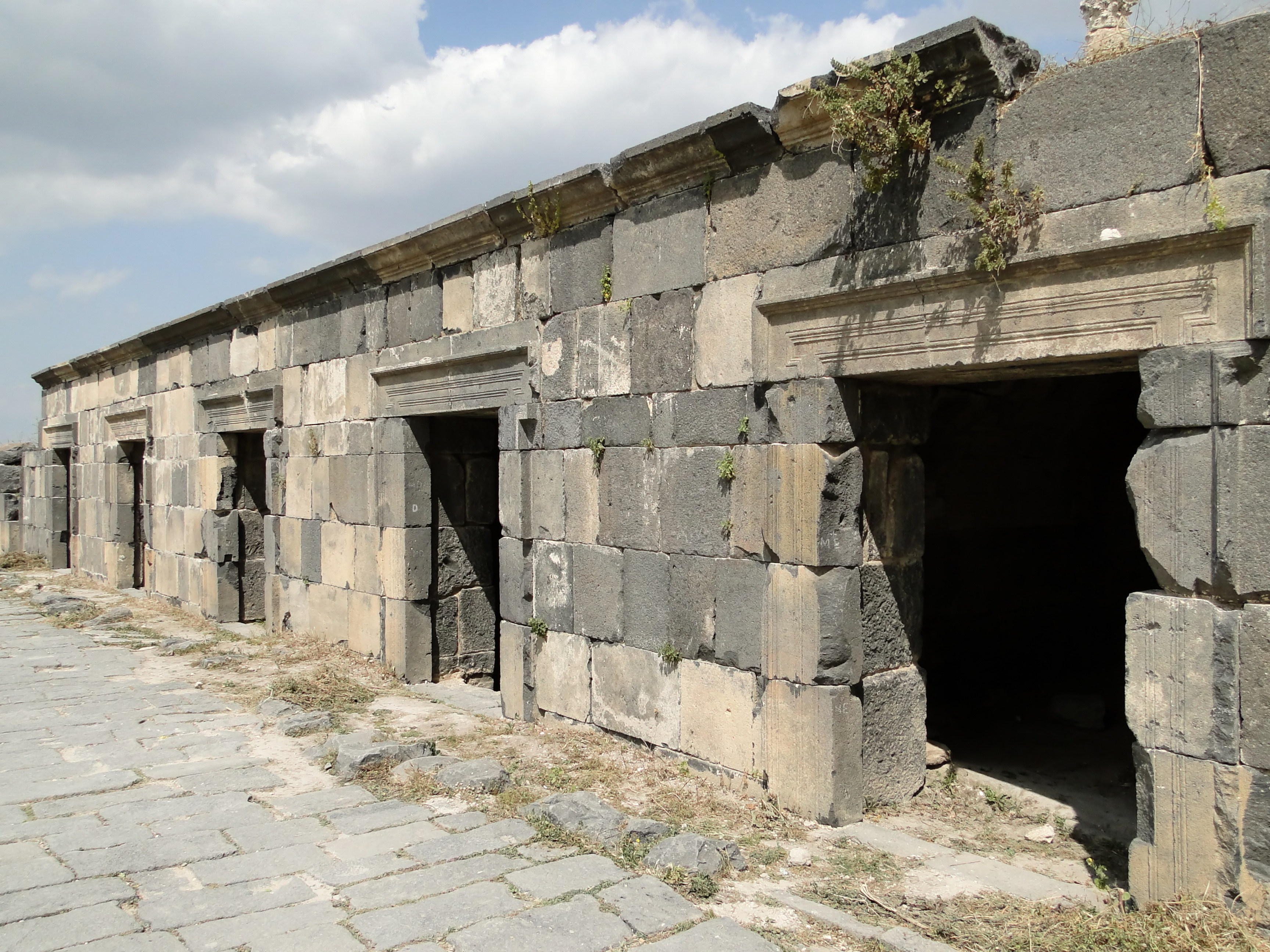 Street of shops on the site of Gadara (Umm Qais), Jordan